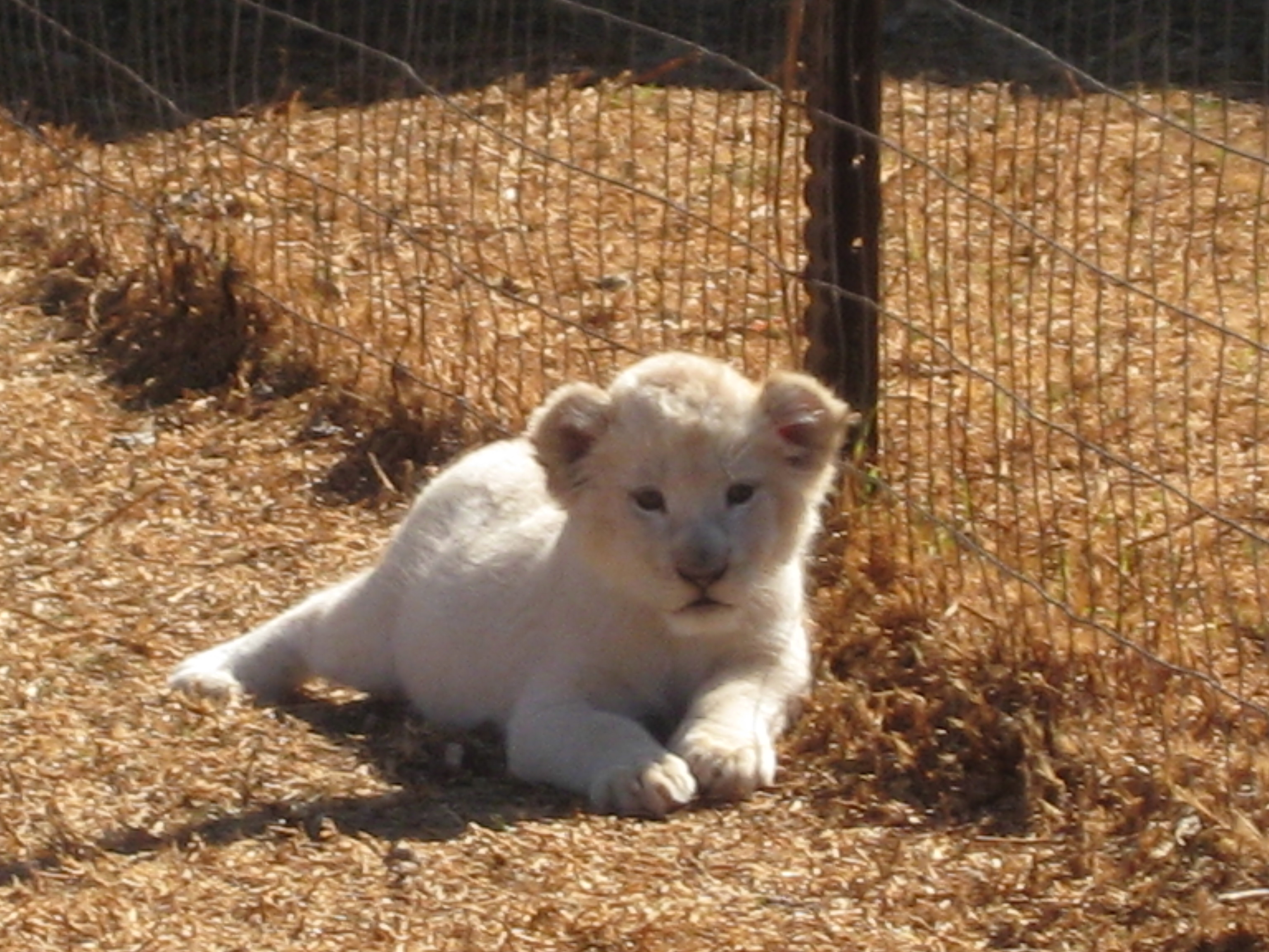 picture of a white lion cub at Rhino & Lion Nature Reserve, Kromdraai, Gauteng, South Africa